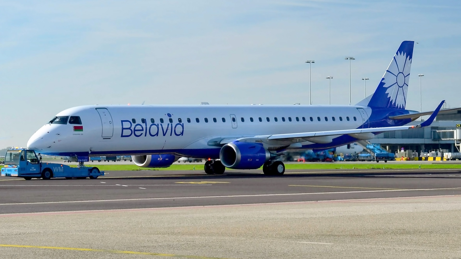 Embraer 195 EW-514PO of Belavia (in new livery) at Amsterdam Airport Schiphol